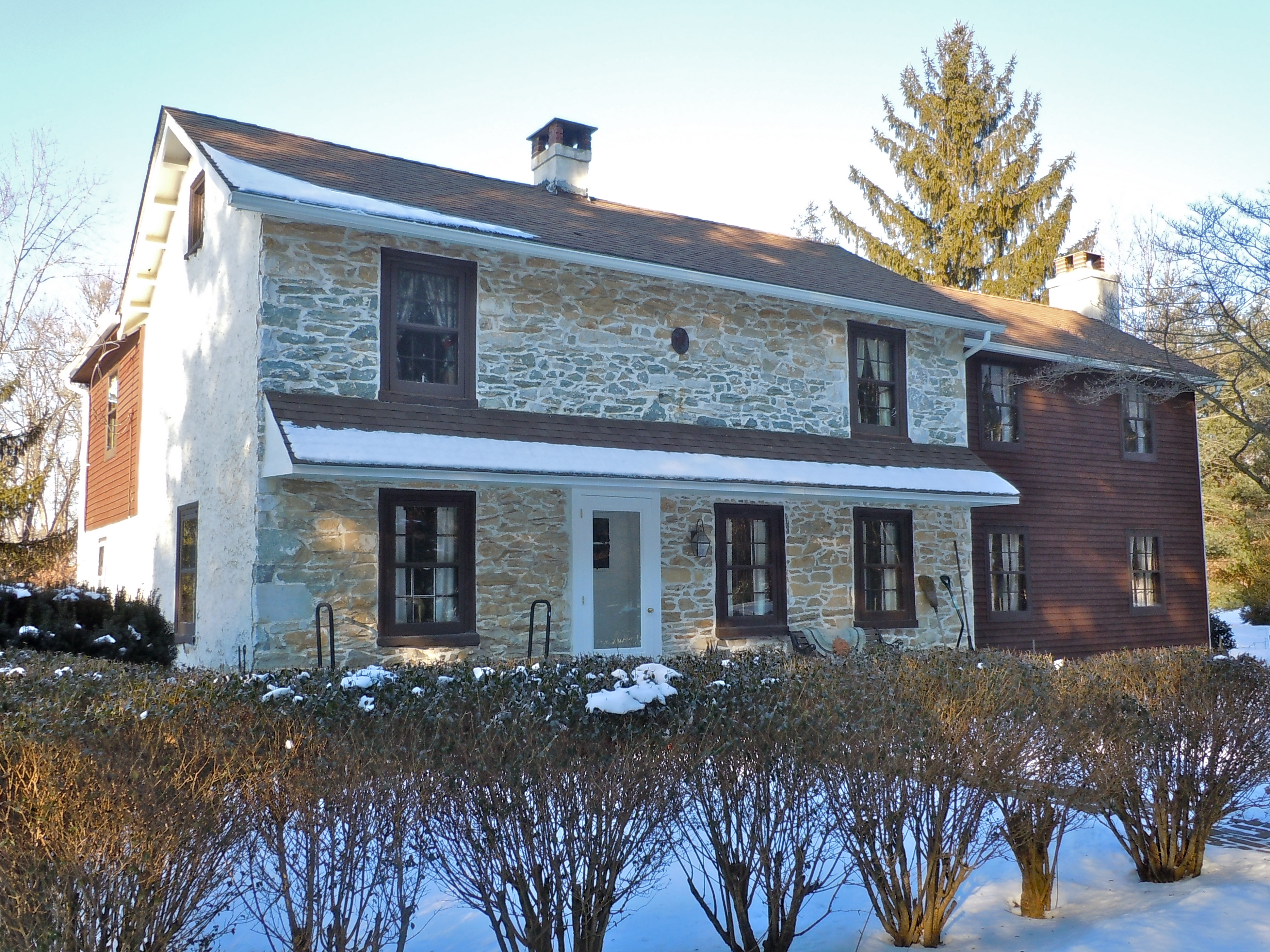 Thomas Marble Quarry House (one of three on the public road - there may be more) on the NRHP since August 2, 1984. On Quarry Lane, West Whiteland Township, Chester County, Pennsylvania, near Exton.